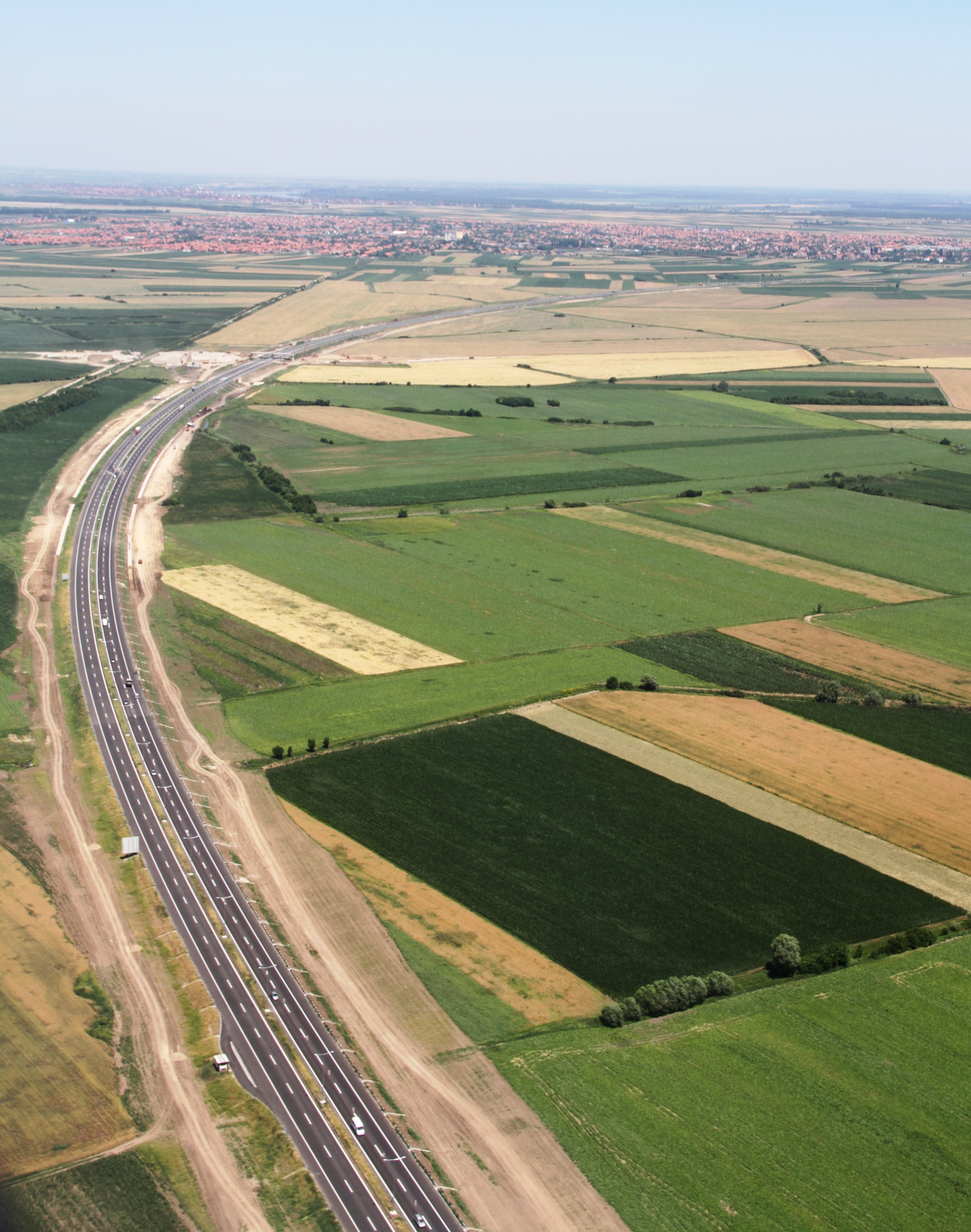 E75 highway in western Beograd municipality - close to the Nikola Tesla Airport.